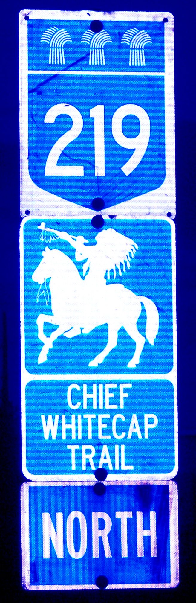 Saskatchewan Highway 219 Saskatchewan Chief Whitecap Trail